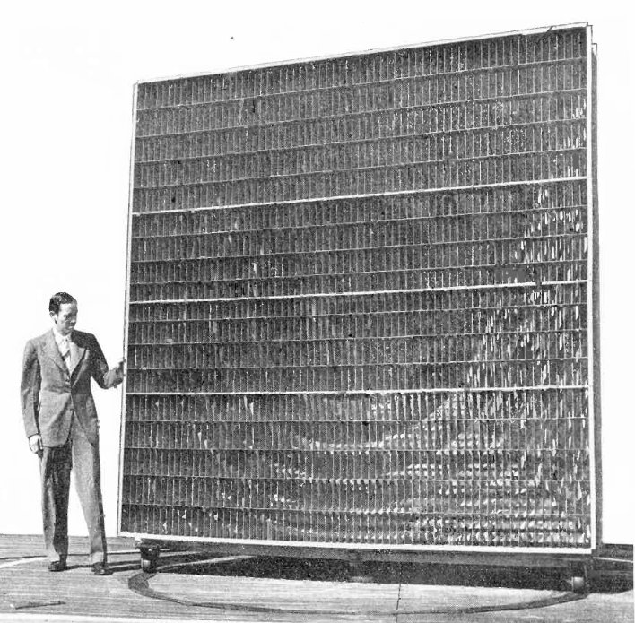 Prototype metallic lens antenna for 6 GHz microwaves, developed at Bell Labs in 1946 by Winston E. Kock, shown standing next to it. It consists of a 10 ft × 10 ft vertical lattice of parallel metal strips in the form of a Fresnel lens. Microwaves from a feed horn behind the antenna pass through the lattice, which focuses them into a parallel beam. The spaces between the strips act as waveguides. It functions similarly to a convex optical lens, slowing the velocity of the waves passing through the center, while increasing the velocity of the waves through the periphery. However in a converging optical lens the glass slows the speed of the waves, so the lens is made thicker in the center than the edges. In the microwave lens the waveguides actually increase the speed (phase velocity) of the microwaves, and thus have an index of refraction less than one, so to make a converging lens it must have a concave shape, thicker in the peripheral regions and thinner in the center. This antenna was used in the first microwave relay stations built by AT&T's Long Lines division in the 1950s. Lens antennas were also used in military radar.